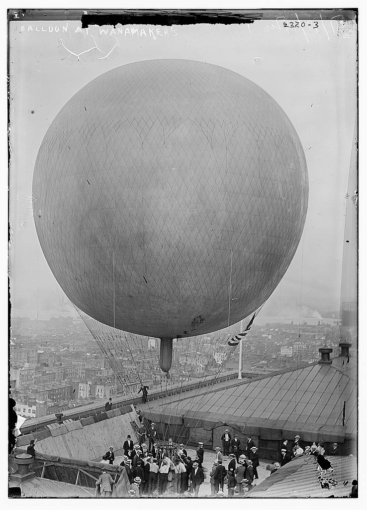 Bain News Service, publisher. Albert Leo Stevens balloon at Wanamaker's in New York City on July 8, 1911 [between 1910 and 1915] 1 negative : glass ; 5 x 7 in. or smaller. Notes: Title from unverified data provided by the Bain News Service on the negatives or caption cards. Forms part of: George Grantham Bain Collection (Library of Congress). Format: Glass negatives. Repository: Library of Congress, Prints and Photographs Division, Washington, D.C. 20540 USA, General information about the Bain Collection is available at Persistent URL: Call Number: LC-B2- 2320-3